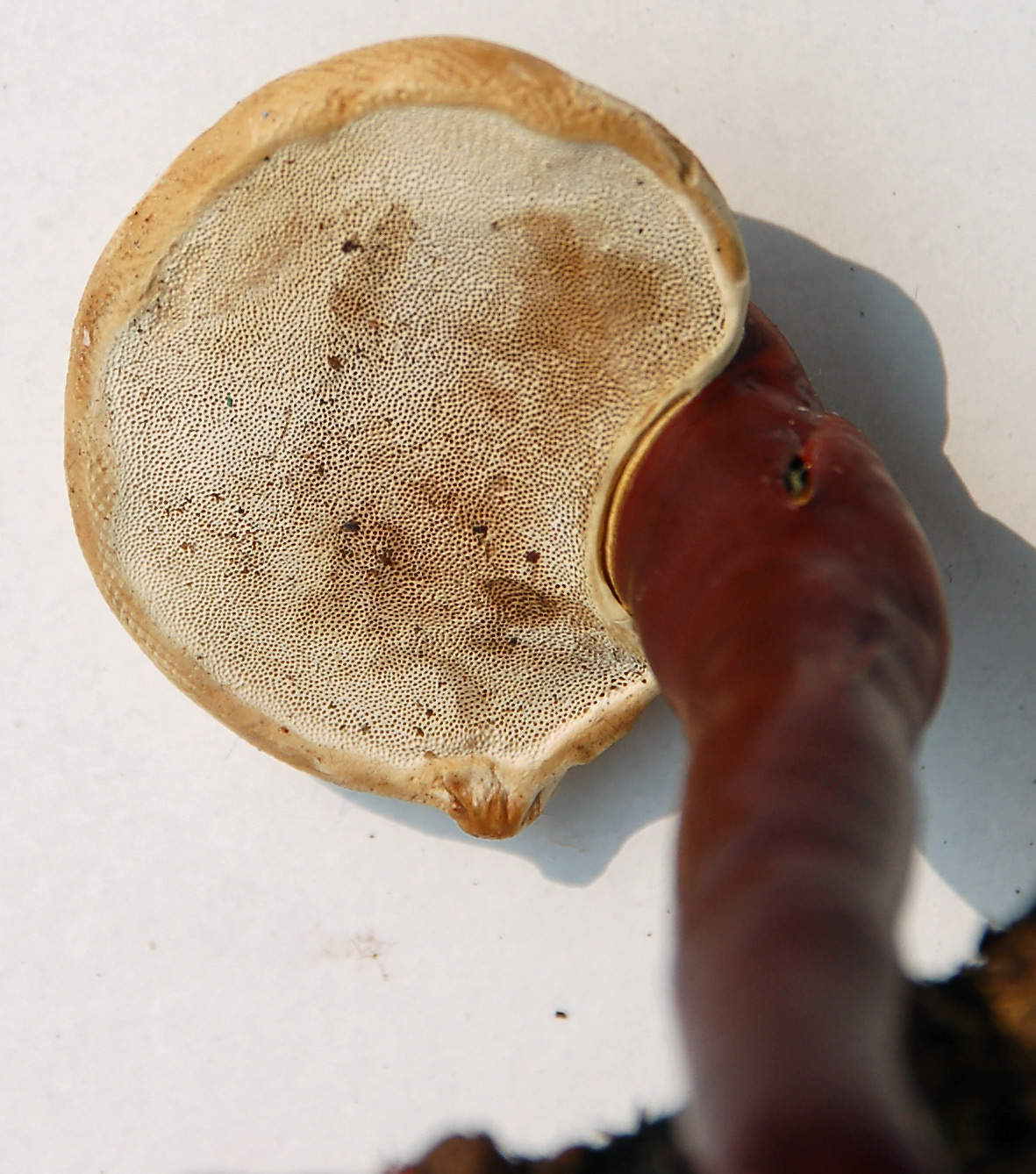 Ganoderma lucidum. Picked 14 aug 2010 near oak stump. Ukraine, Kiev Oblast, Fastiv raion